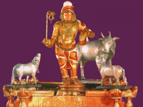 Rajagopala swamy of Mannargudi